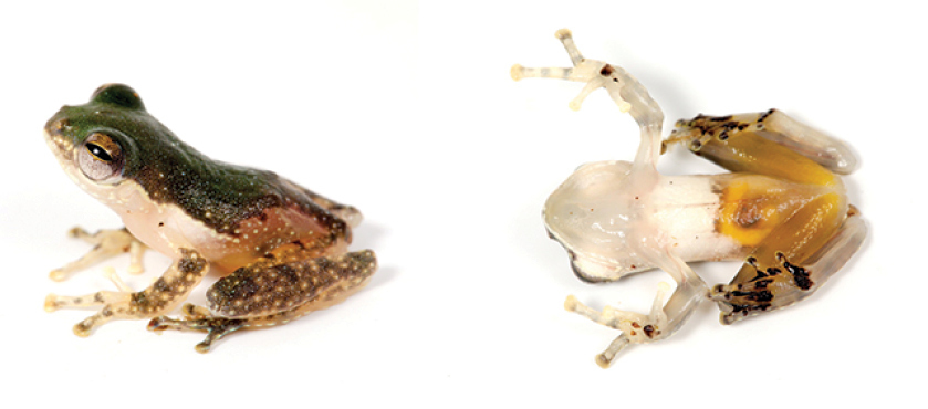 Figure 5; Feihyla kajau. Pairs of photos (dorsolateral and ventral) depict the same individual.